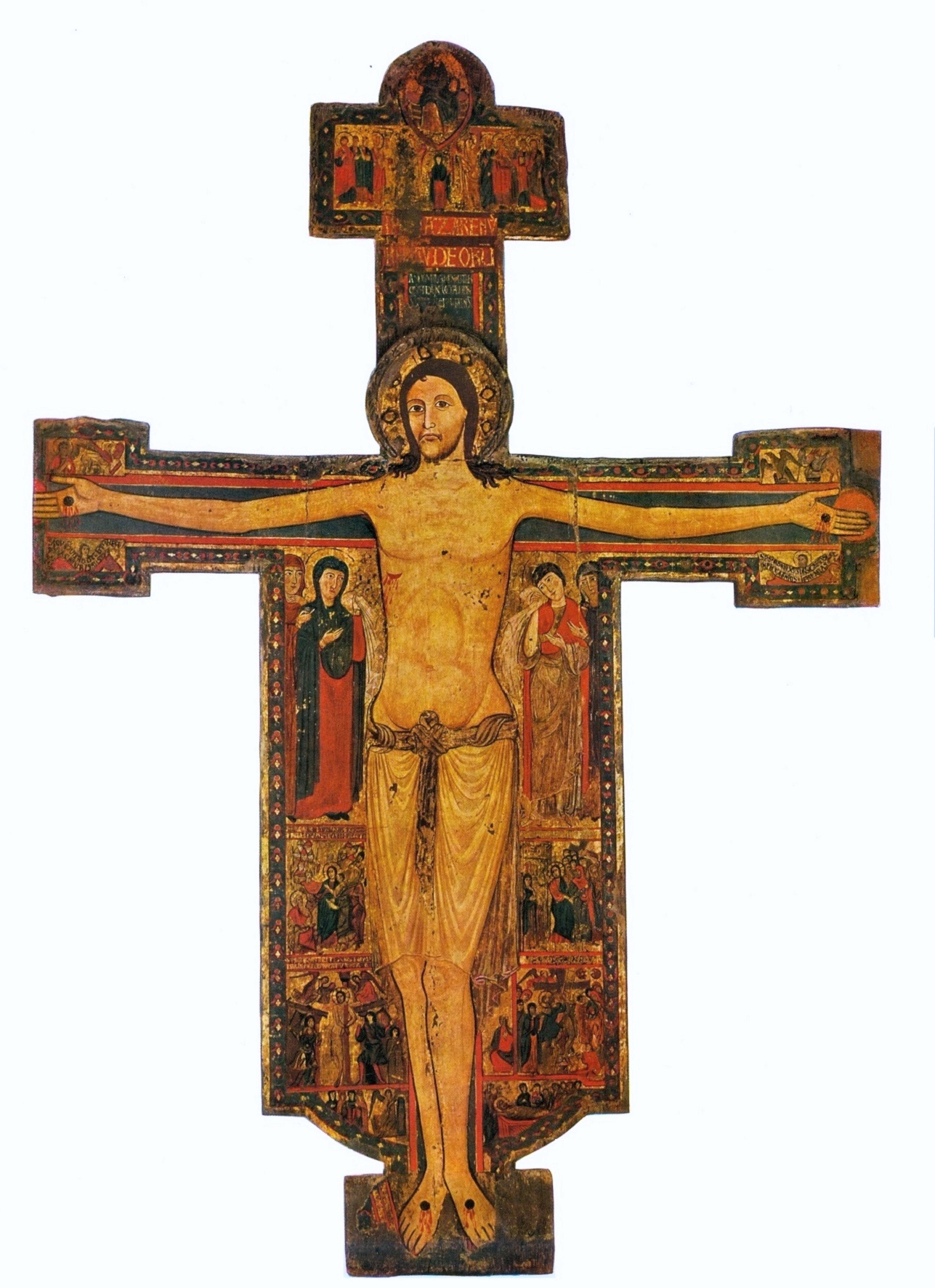 Crusifix (Master Guglielmo, Sarzana, cathedral)